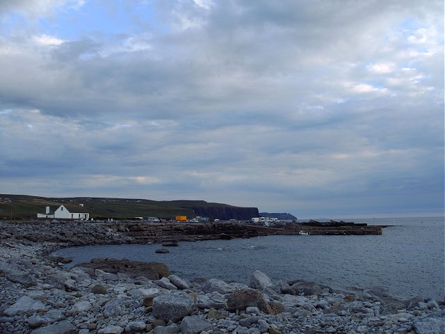 Photo Doolin harbour. Nearly sunset on midsummersnighteve.